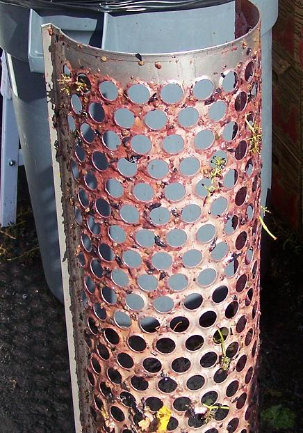 Image of main component of a destemmer used for red wine grapes. Photo taken at Mountain Homebrew in Kirkland, WA on October 14th, 2007 with a Kodak z650.